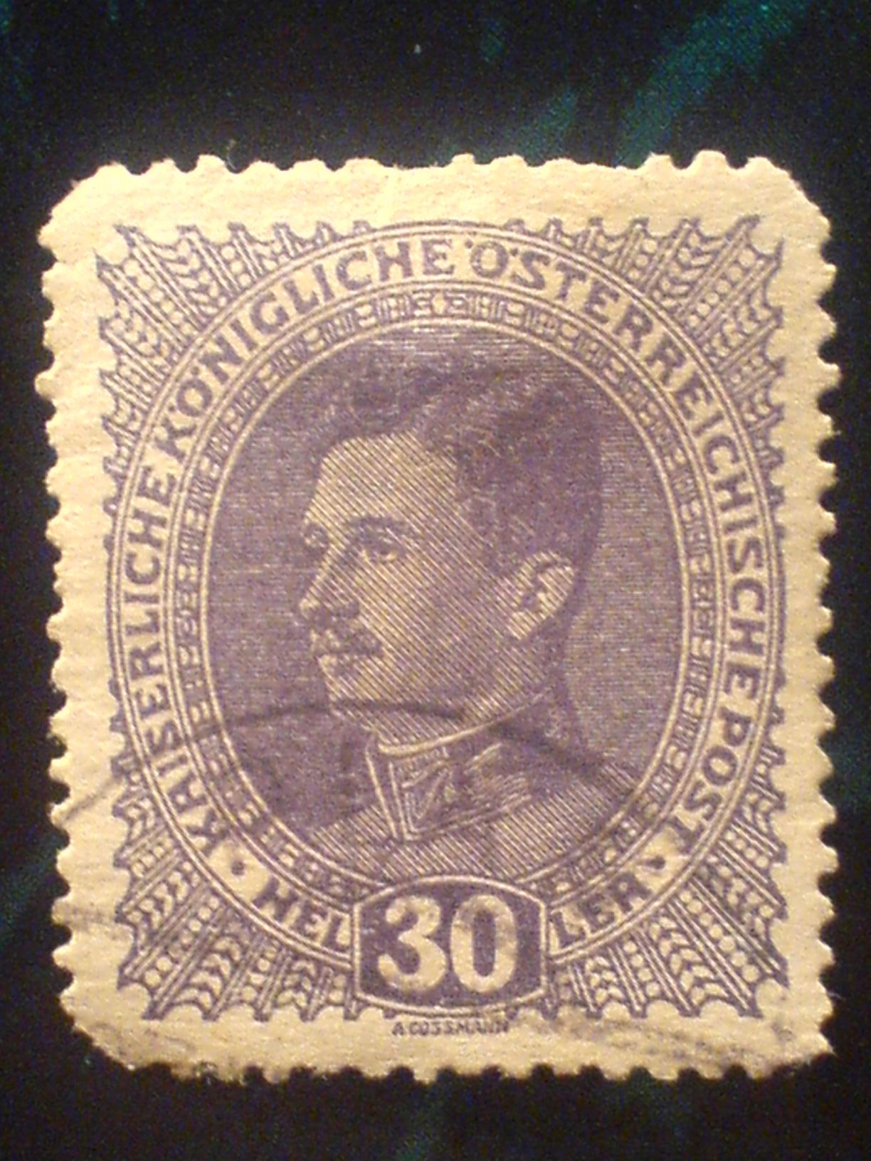 A stamp issued by Austrian Empire, 1917, 30 hellers